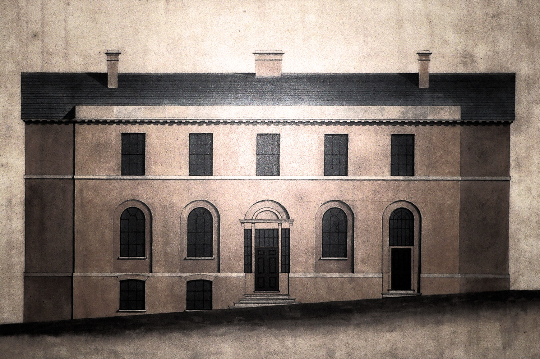 The front of the Custom Office, London Dock, designed by Daniel Asher Alexander and in use 1811-43.